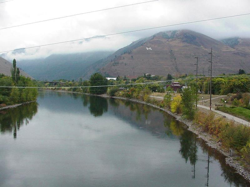 view of Mount Sentinel from Higgins Bridge in Missoula